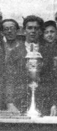 Albin Novšak (1915-1992), Slovene ski jumper.